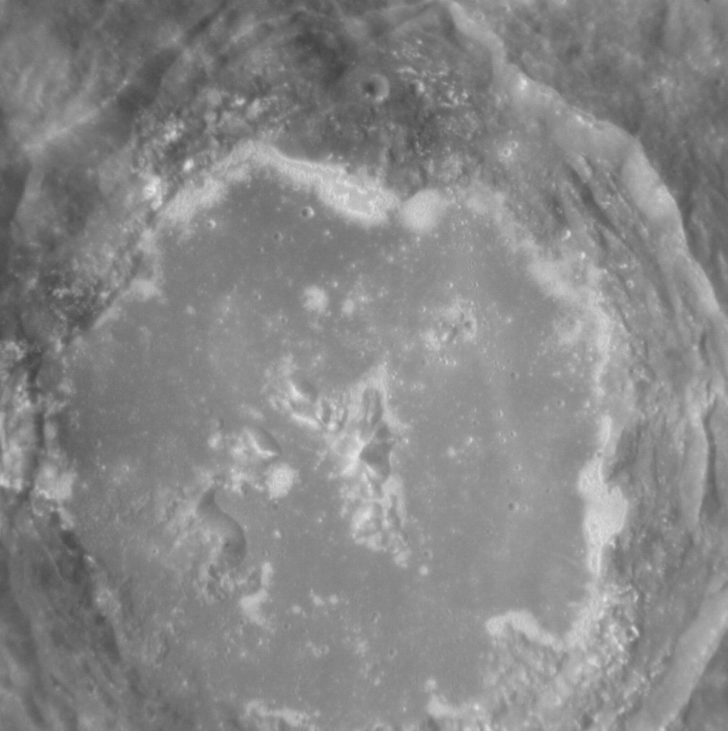 Seuss crater on Mercury. MESSENGER Narrow Angle Camera image. The bright areas are hollows. Approximate north is at top. Emission Angle: 9.3 Incidence Angle: 35.4 Latitude: 7.8 Longitude: 33.3 Phase Angle: 44.7